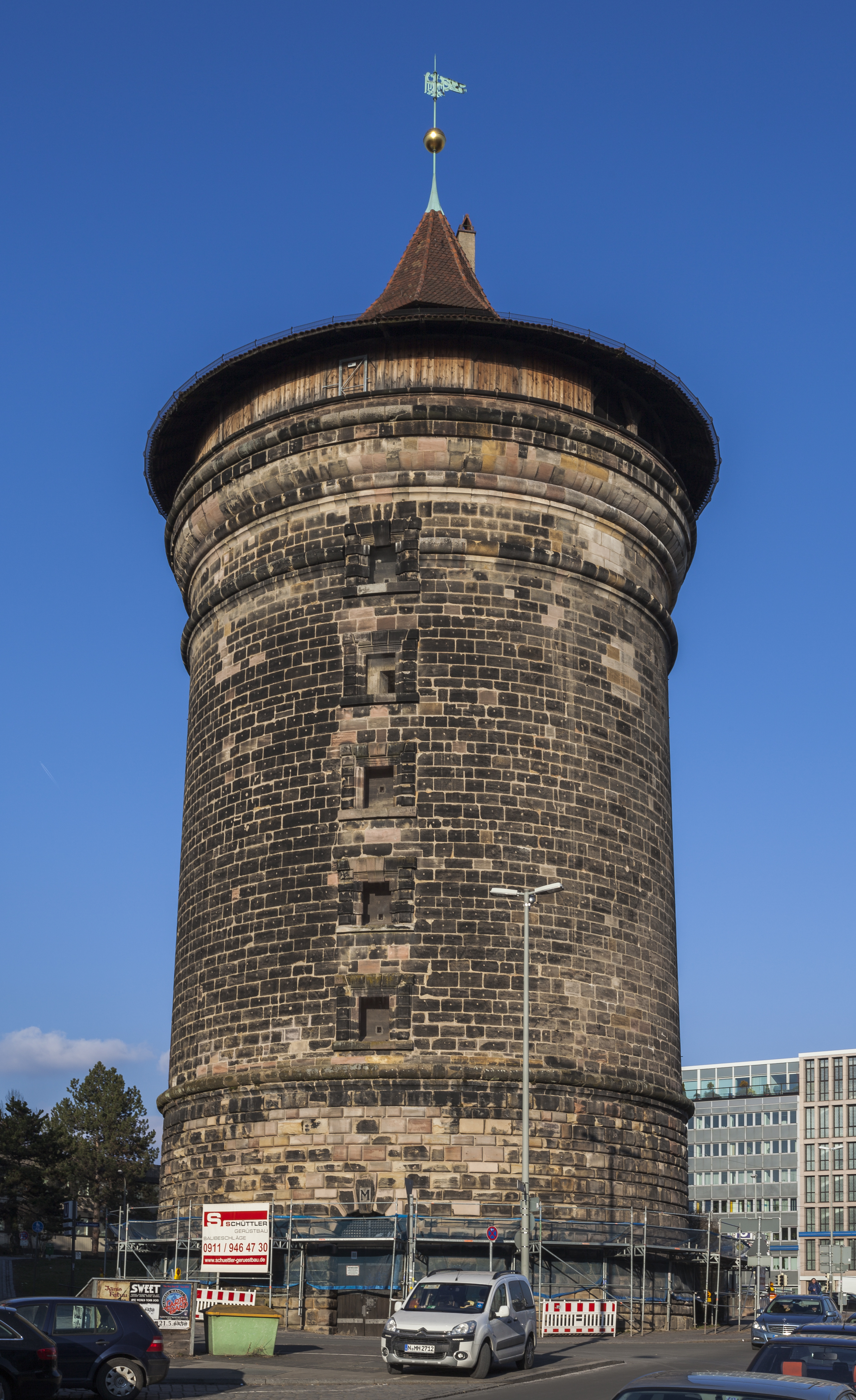 Laufer Tower, Nuremberg, Germany